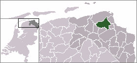 Locator map of Dutch municipalities in Groningen (LocatieLoppersum.png)